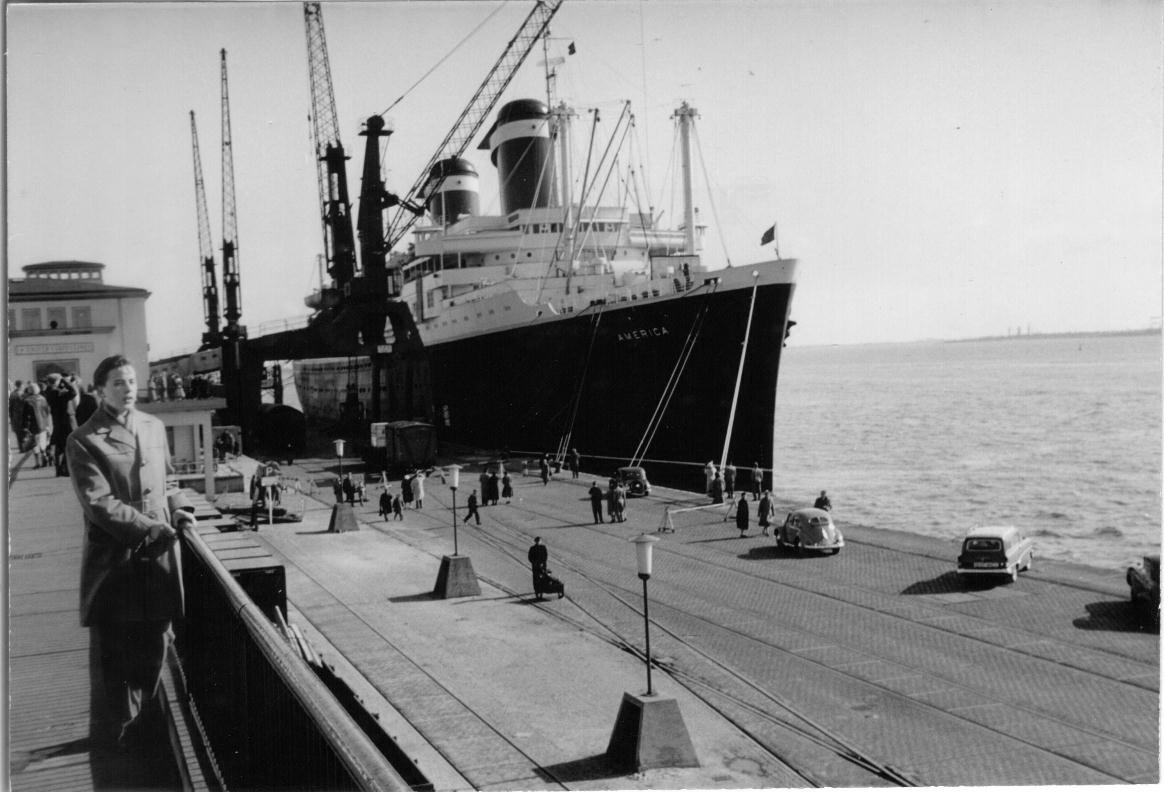 SS America in Bremerhaven, Germany in 1958